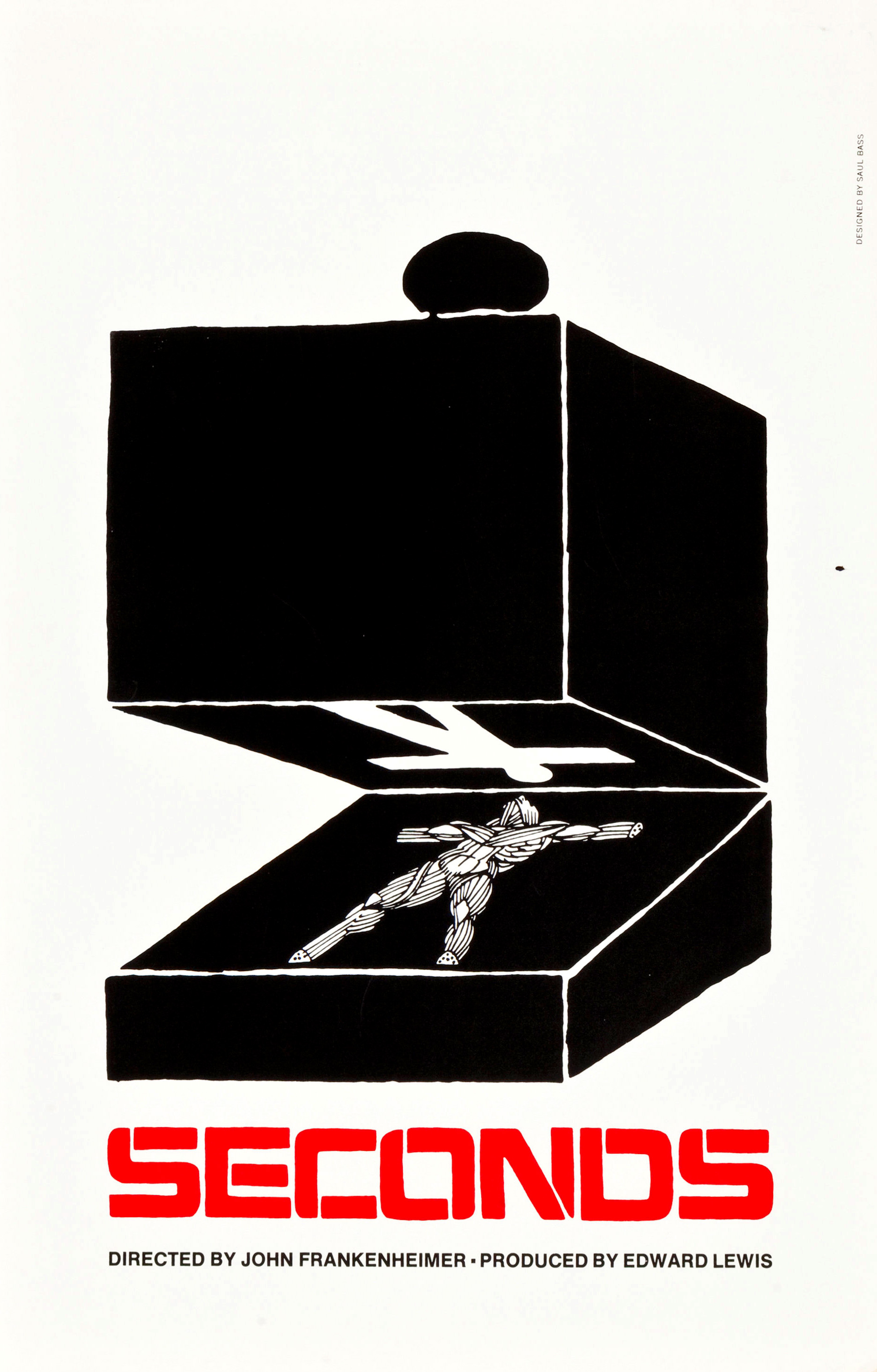 Alternate concept poster by designer Saul Bass for the 1966 film Seconds.